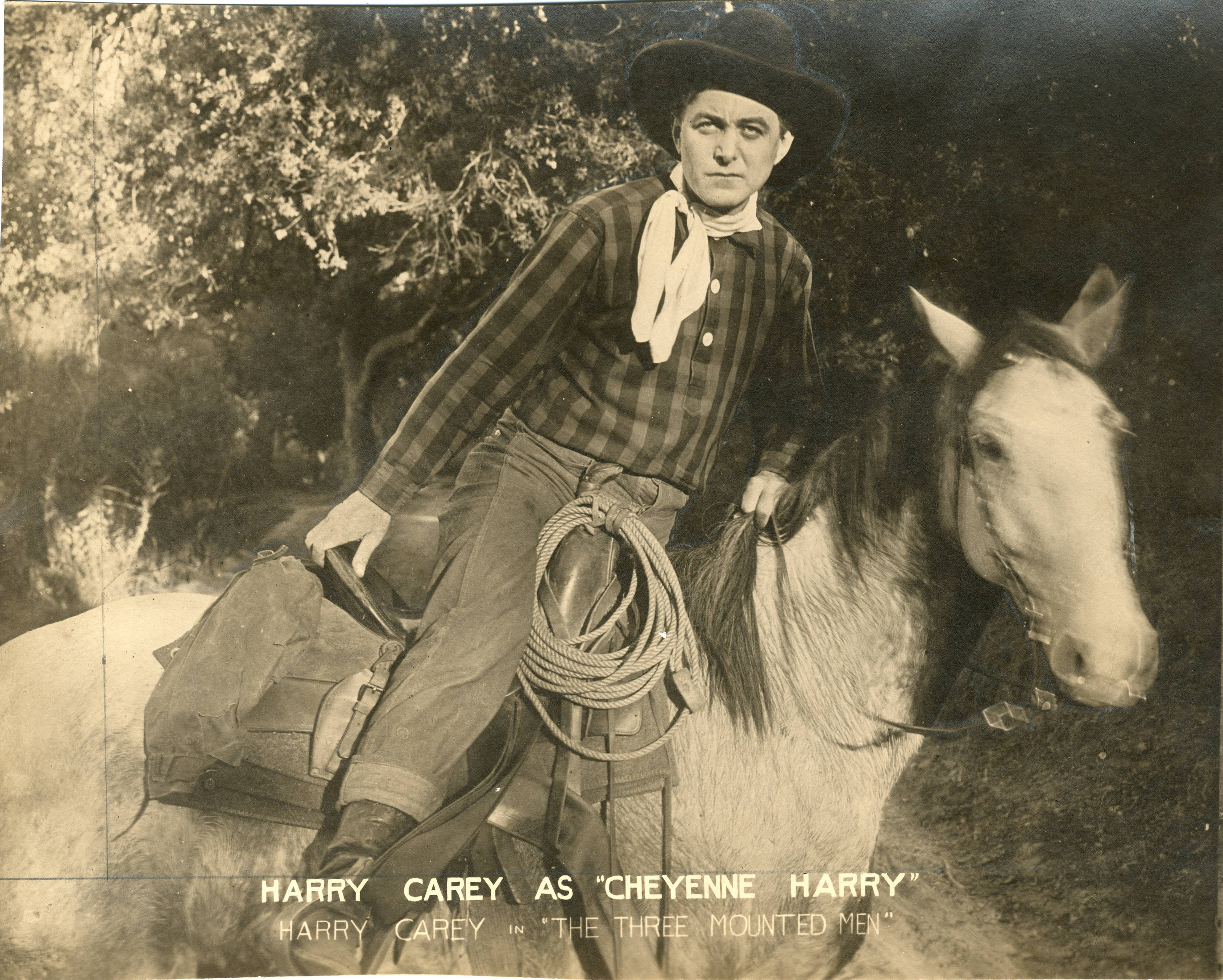 Silent film actor Harry Carey in Three Mounted Men (1918). Subjects: actors, motion pictures